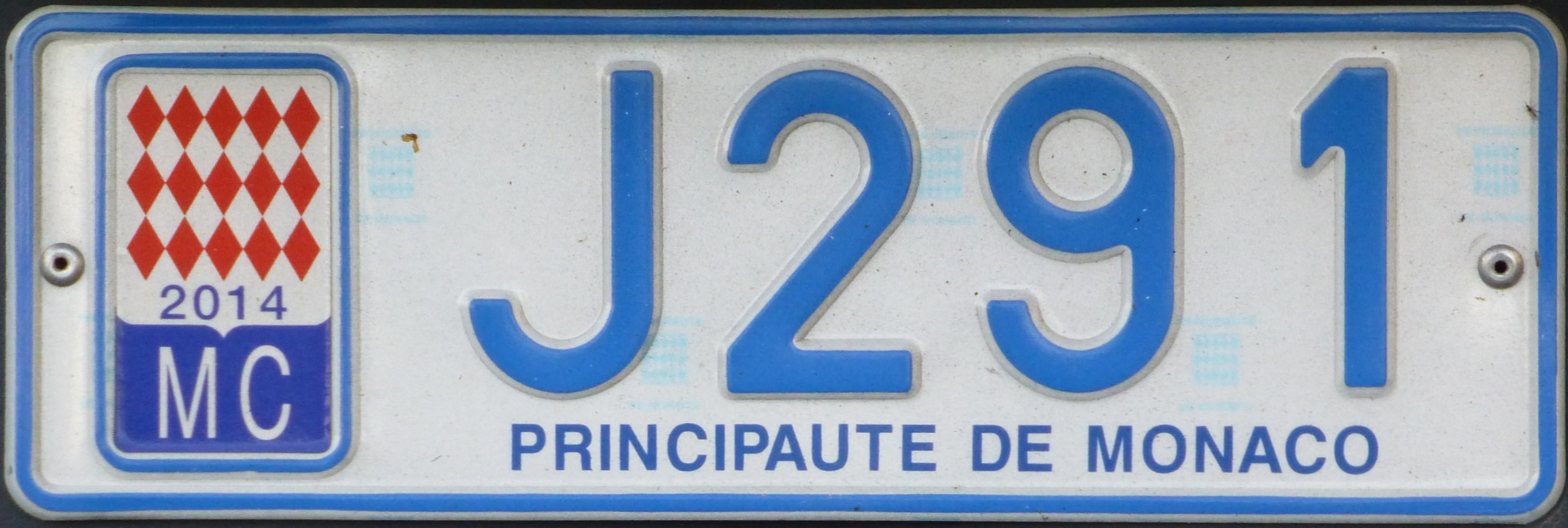 Rear license plate from Monaco (2014)